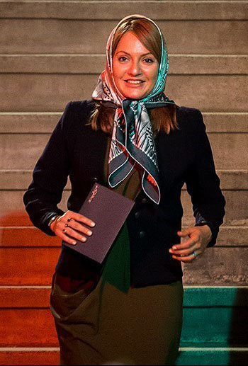 17th Iranian cinema celebration was held in Masoudieh Mansion by Iran's House of Cinema.